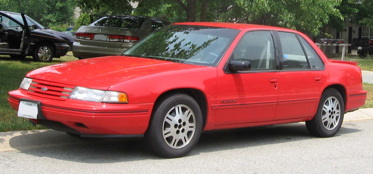 1991-1994 Chevrolet Lumina photographed in USA.